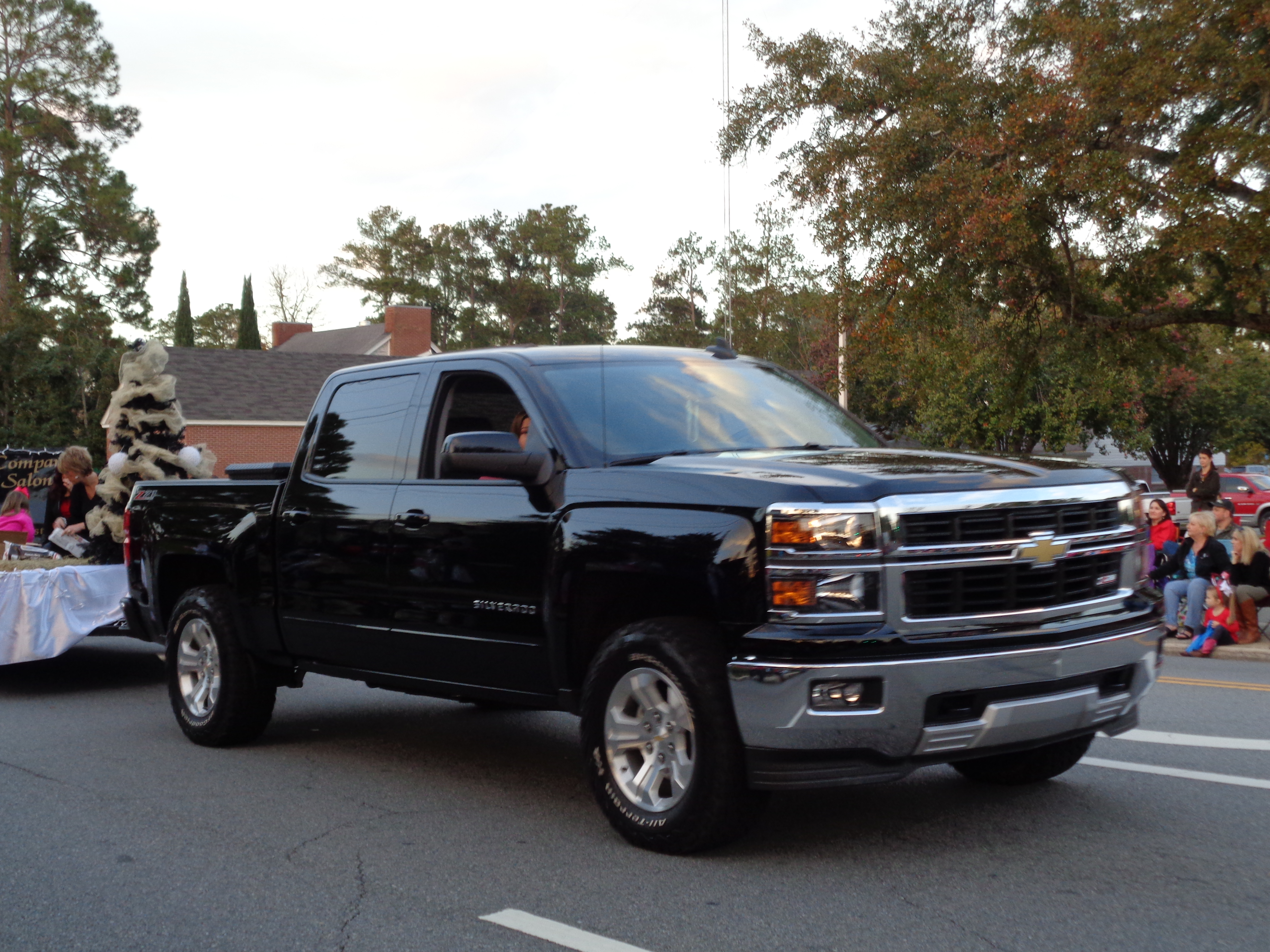 2015 Greater Valdosta Community Christmas Parade, Valdosta, Lowndes County, Georgia